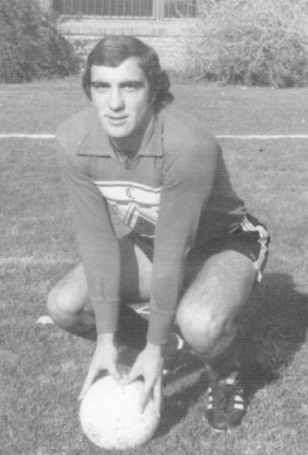 This is a photograph of Juan Domingo Rocchia taken during his time with Ferro Carril in Argentina. He played his last game for the club in 1983